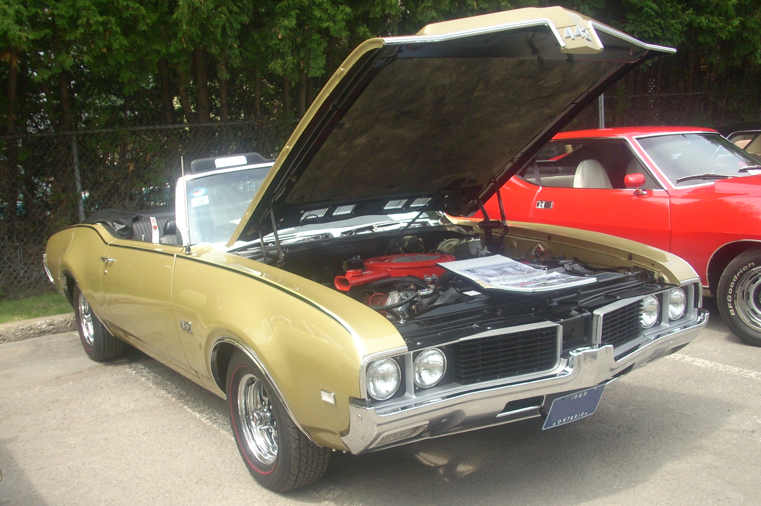 1969 Oldsmobile 442 photographed in Ste. Anne De Bellevue, Quebec, Canada at Cruisin' At The Boardwalk 2010.